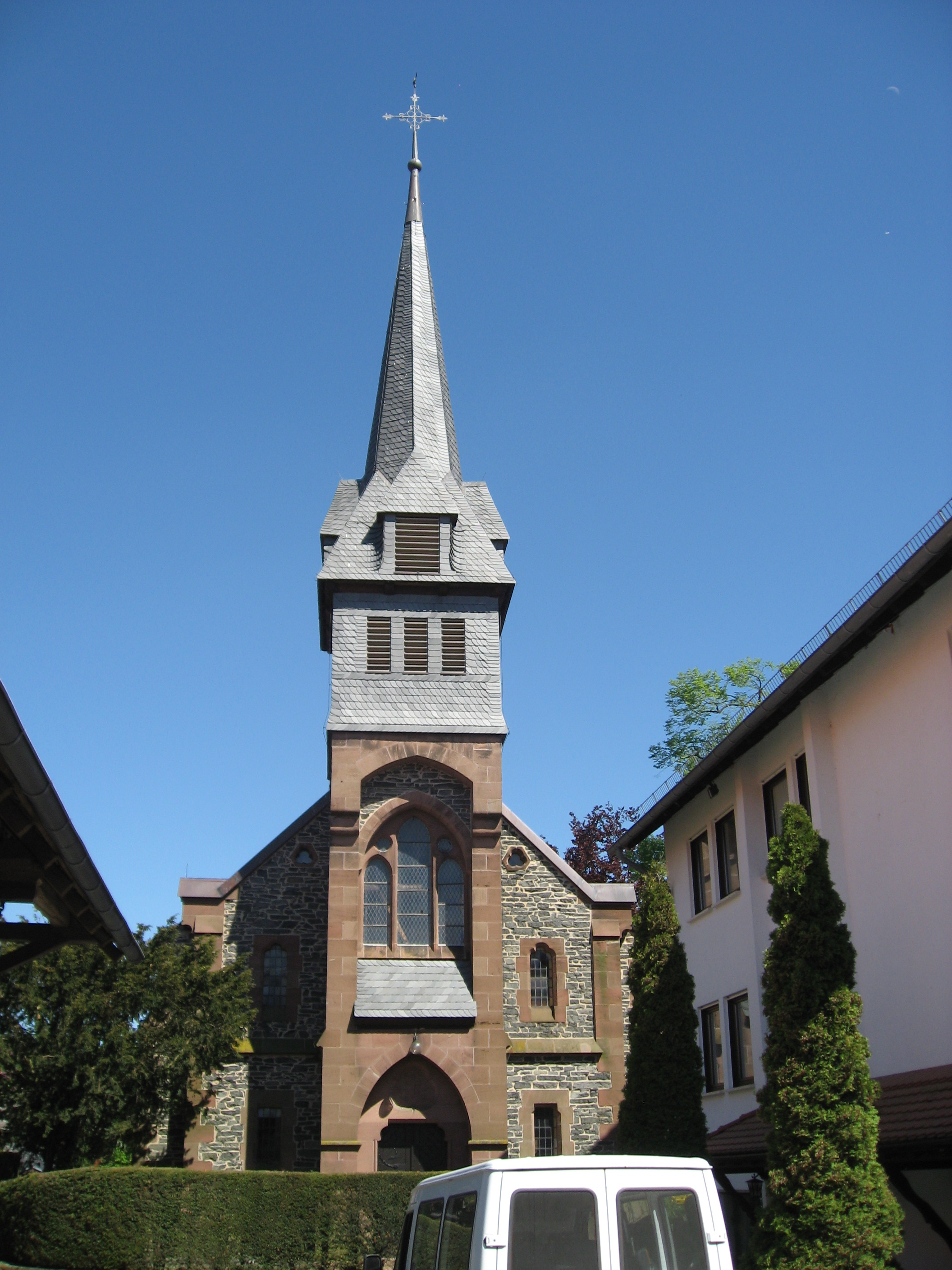 Church in Felsberg-Hesserode